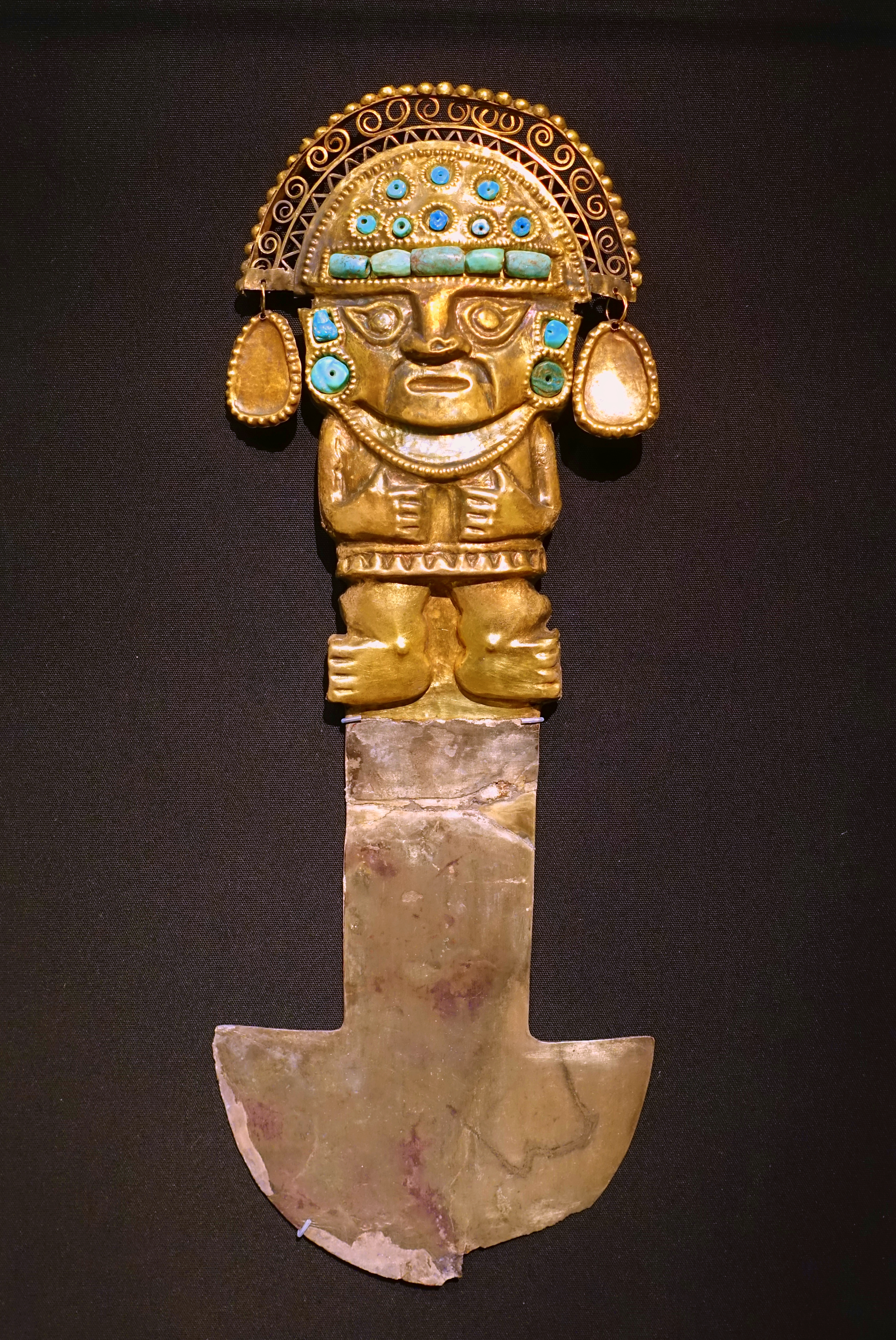 Pre-Columbian art in the Dallas Museum of Art, Texas, USA.